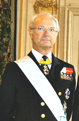 king Carl XVI Gustaf of Sweden